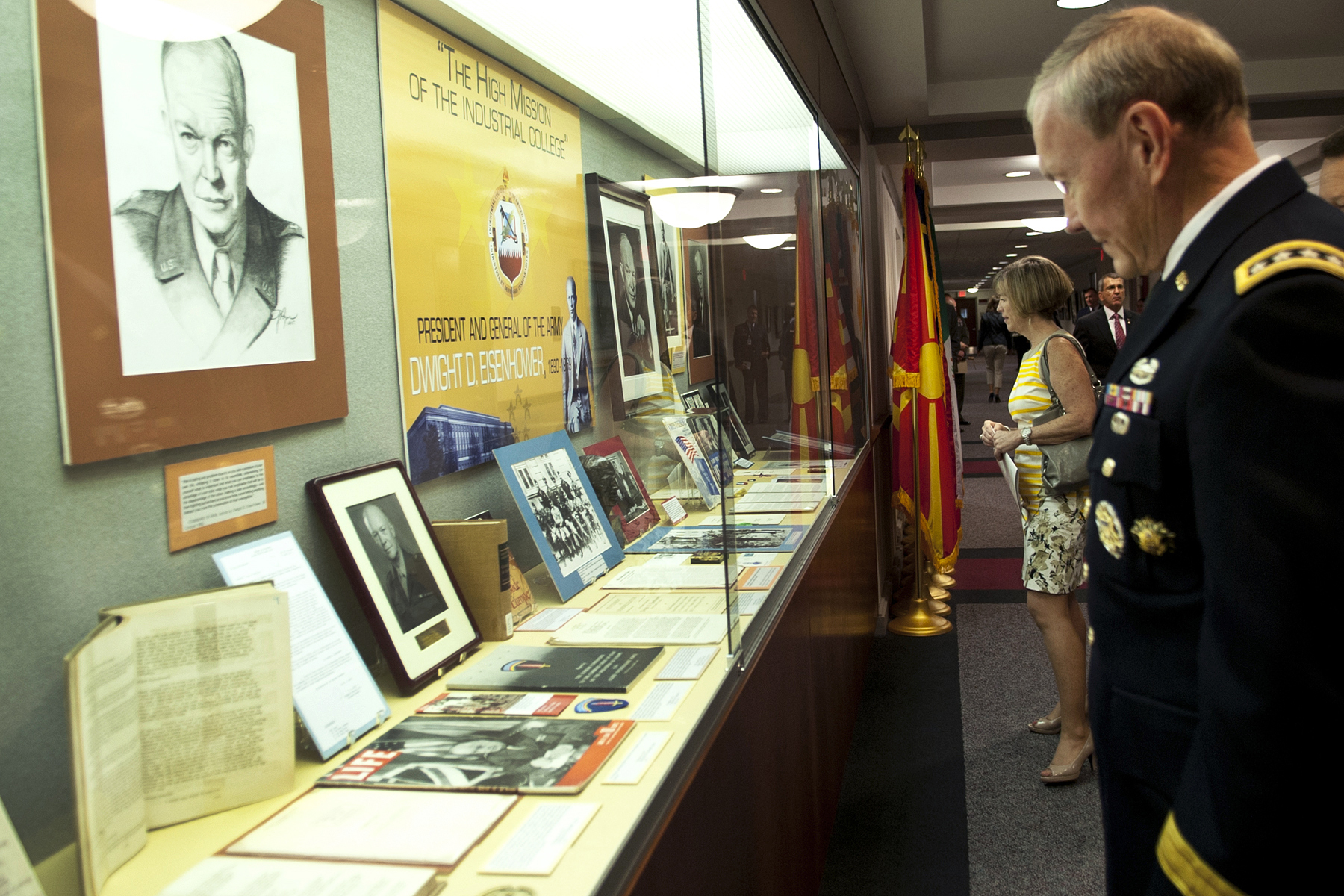 Army Gen. Martin E. Dempsey, chairman of the Joint Chiefs of Staff and his wife, Deanie, look at memorabilia from President Dwight D. Eisenhower's time in the military after the ceremony to rename the Industrial College of Armed Forces to The Dwight D. Eisenhower School of National Security and Resource Strategy at National Defense University on Fort McNair in Washington, D.C., Sept. 6, 2012.